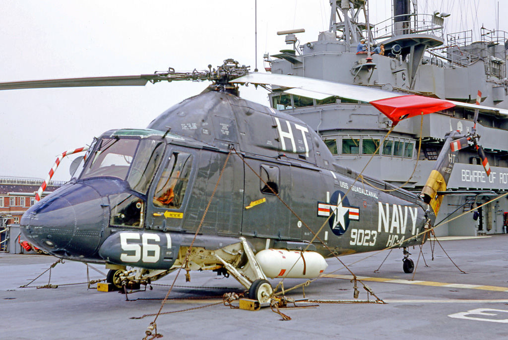 A U.S. Navy Kaman UH-2A Seasprite (BuNo 149023) of Helicopter Combat Support Squadron 4 (HC-4) aboard the amphibious assault ship USS Guadalcanal (LPH-7) in 1970. 149023 was later converted to an SH-2F and retired to the AMARC as 8H0025 on 30 March 1993.